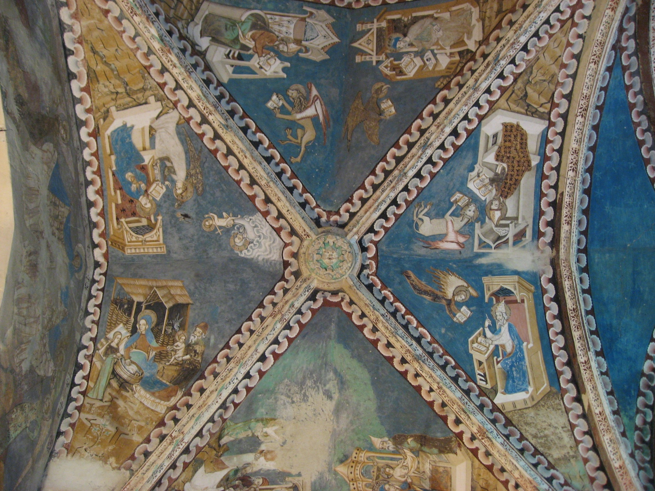 frescos at the choir of the Saxon fortified church in Mălâncrav (German: Malmkrog, Hungarian: Almakerék)